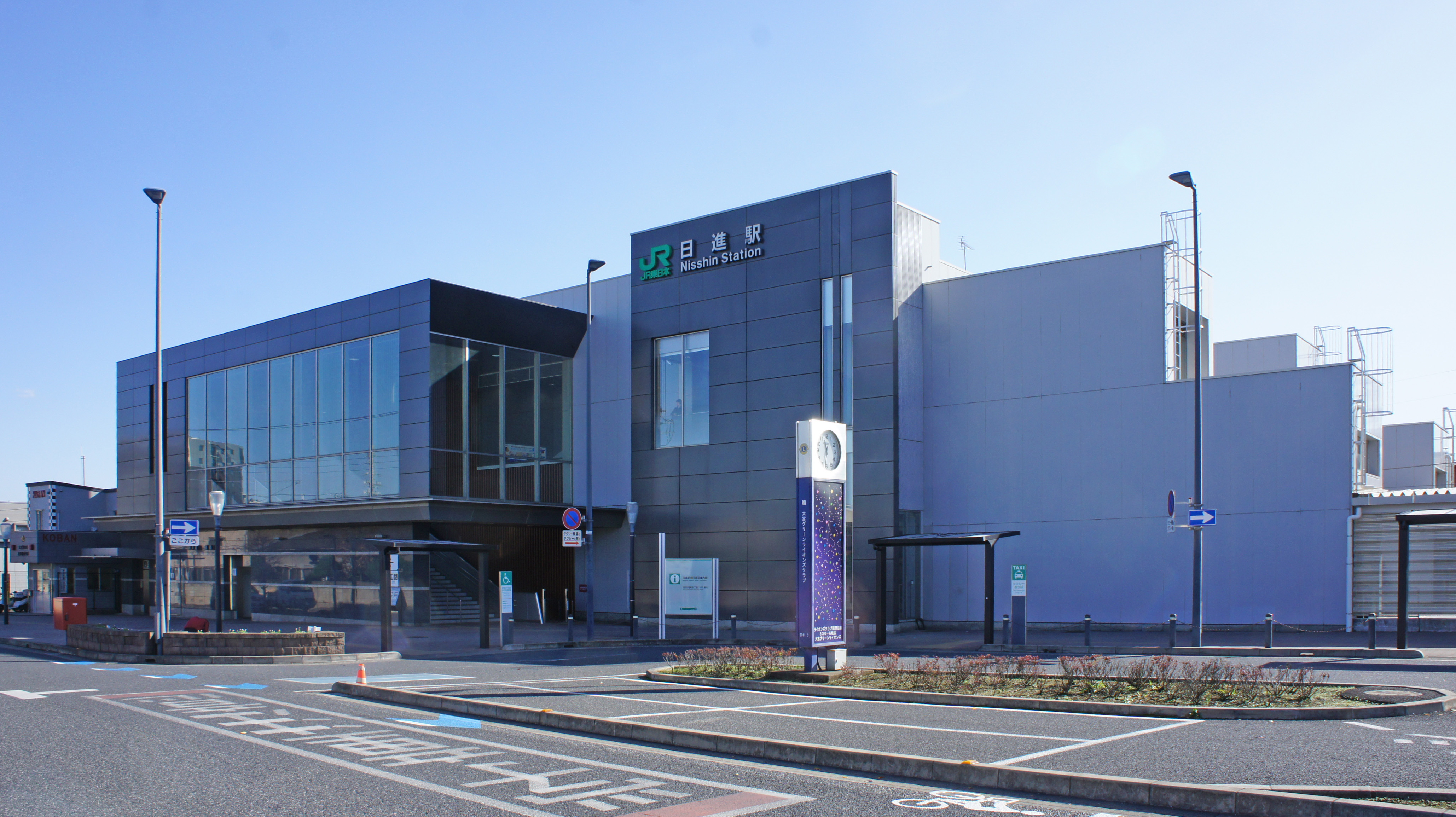 North Exit of JR Kawagoe-Line Nisshin Station